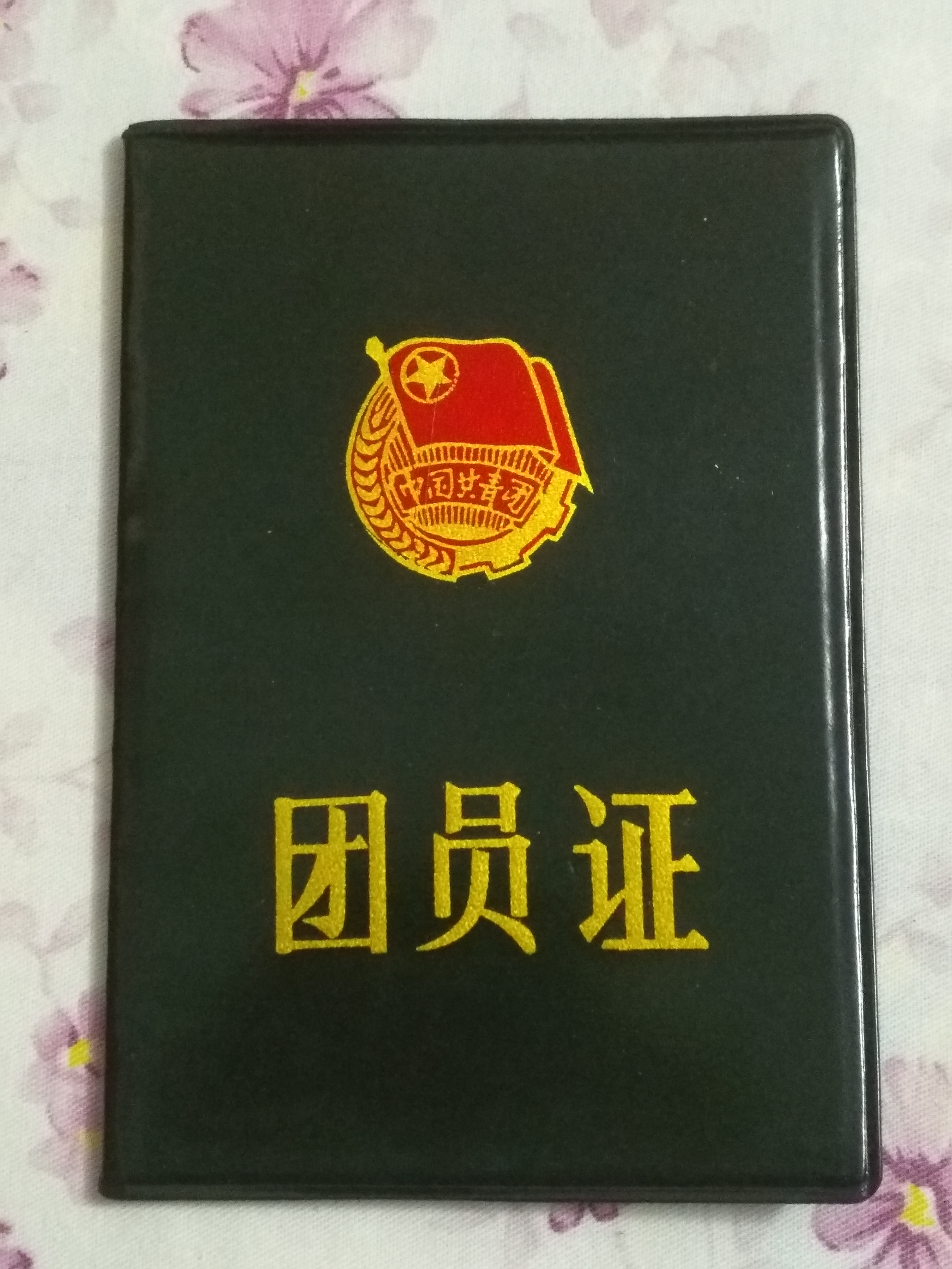 Certificate of the Communist Youth League of China.